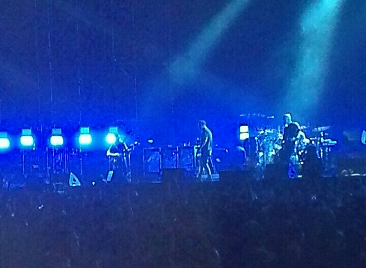 System of a Down performing at Firenze Rock, Florence, Italy, 06/25/2017